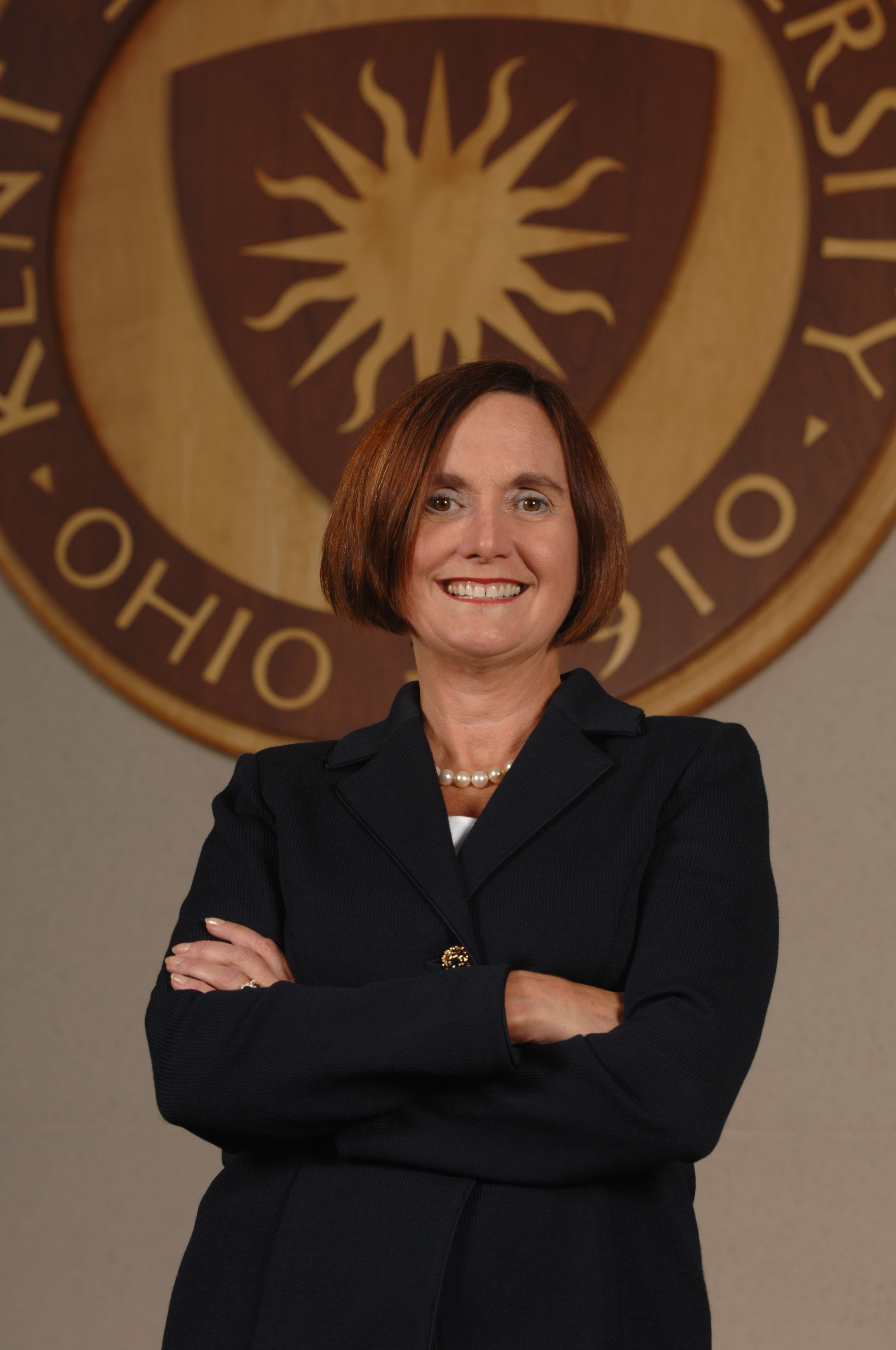 Dr. Betsy Vogel Boze